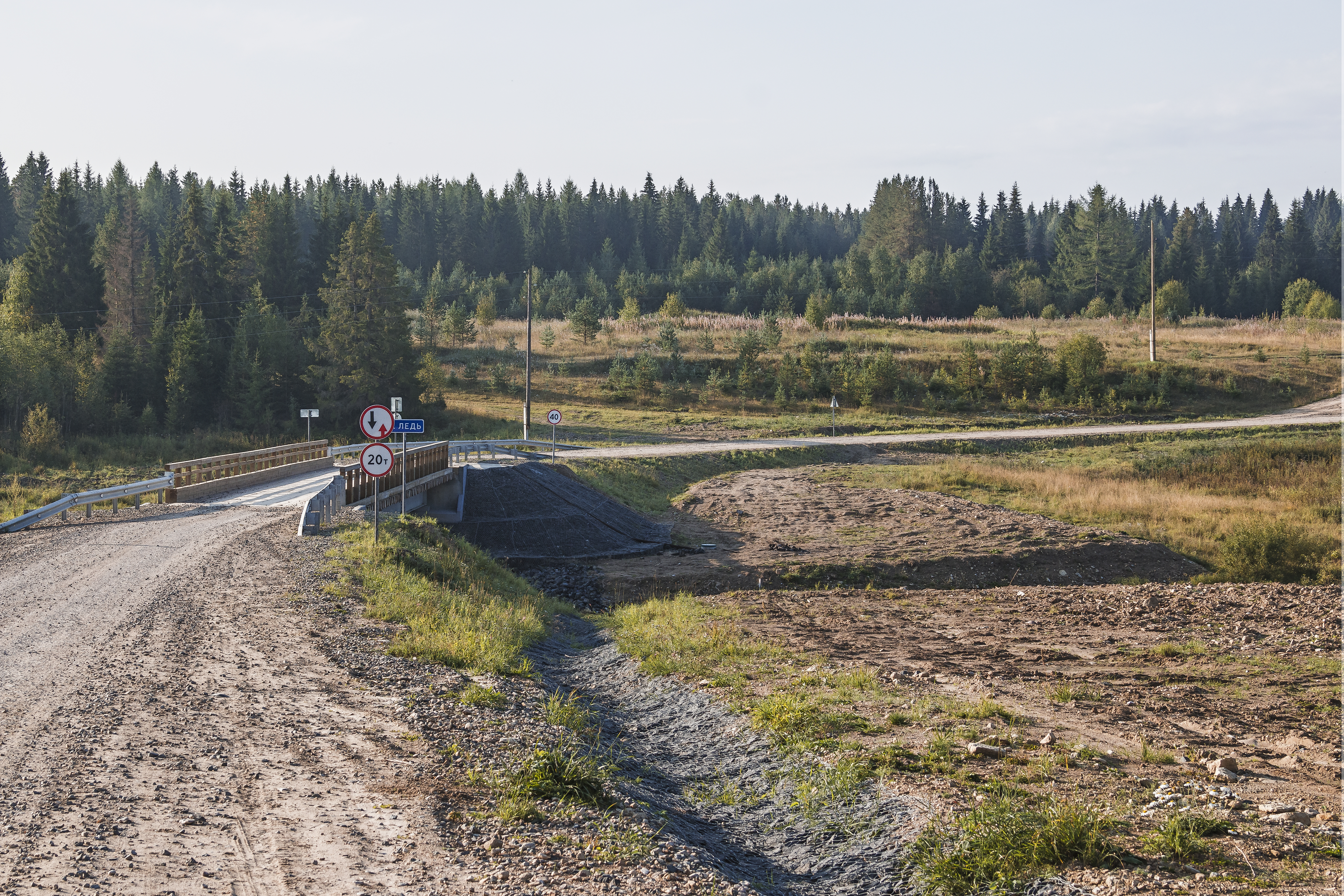 Bridges across the river Led and R. Sumu: Virgolette and Syumy, shenkursky district, Arkhangelsk oblast